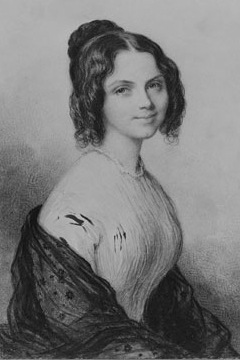 CROP of painting of Anne C. Lynch Botta, a socialite and noted writer of New York City, United States during the 19th century. Circa 1847